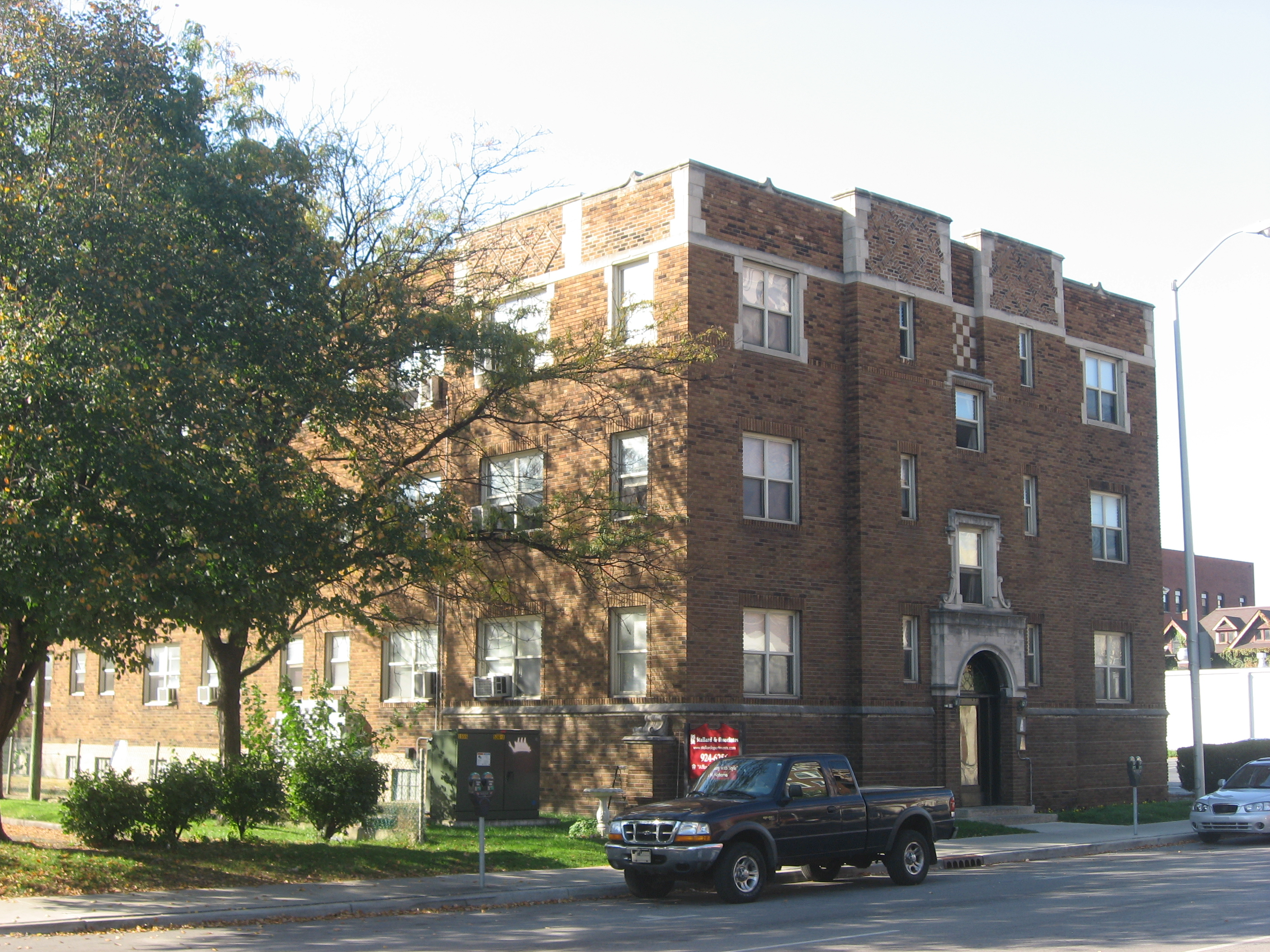 Southern side and front of The Devonshire, located at 412 N. Alabama Street in Indianapolis, Indiana, United States. Built in 1929, it is listed on the National Register of Historic Places.